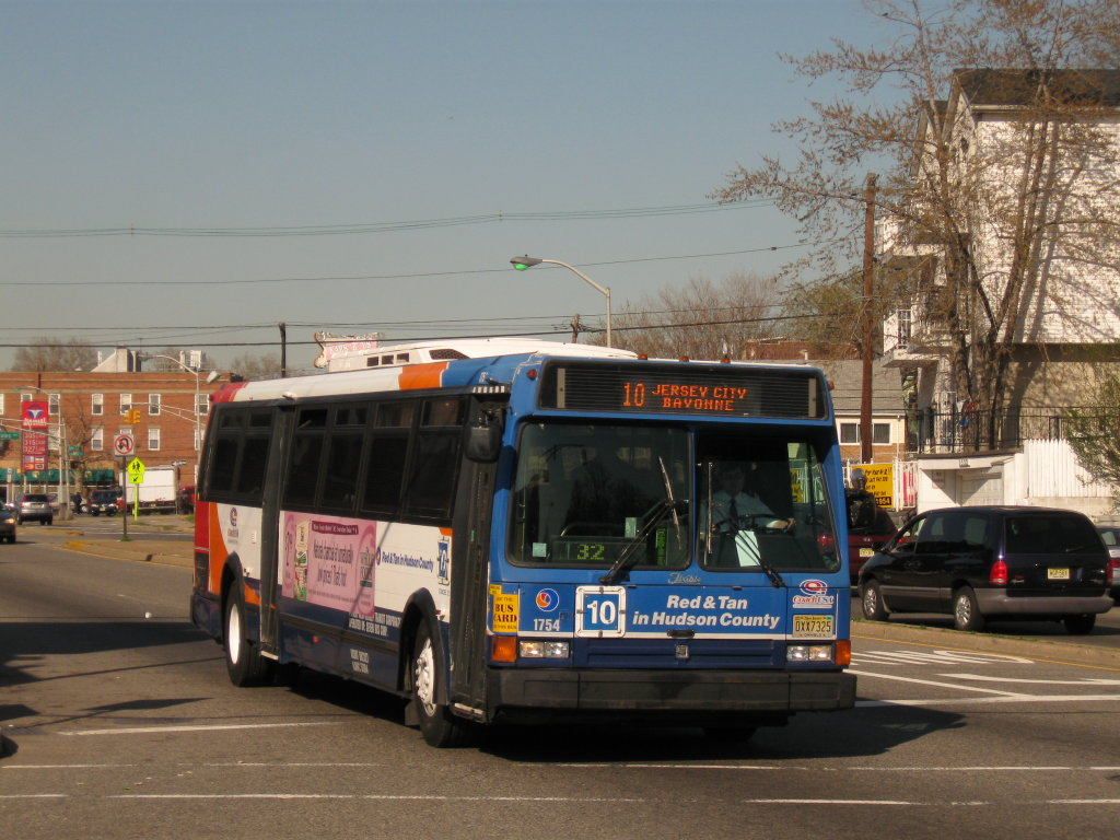 Coach USA Red & Tan Flxible Metro-D 40102-6C8 1754 in Stagecoach UK Bus livery, owned by New Jersey Transit, operates on the #10 in Jersey City, New Jersey.